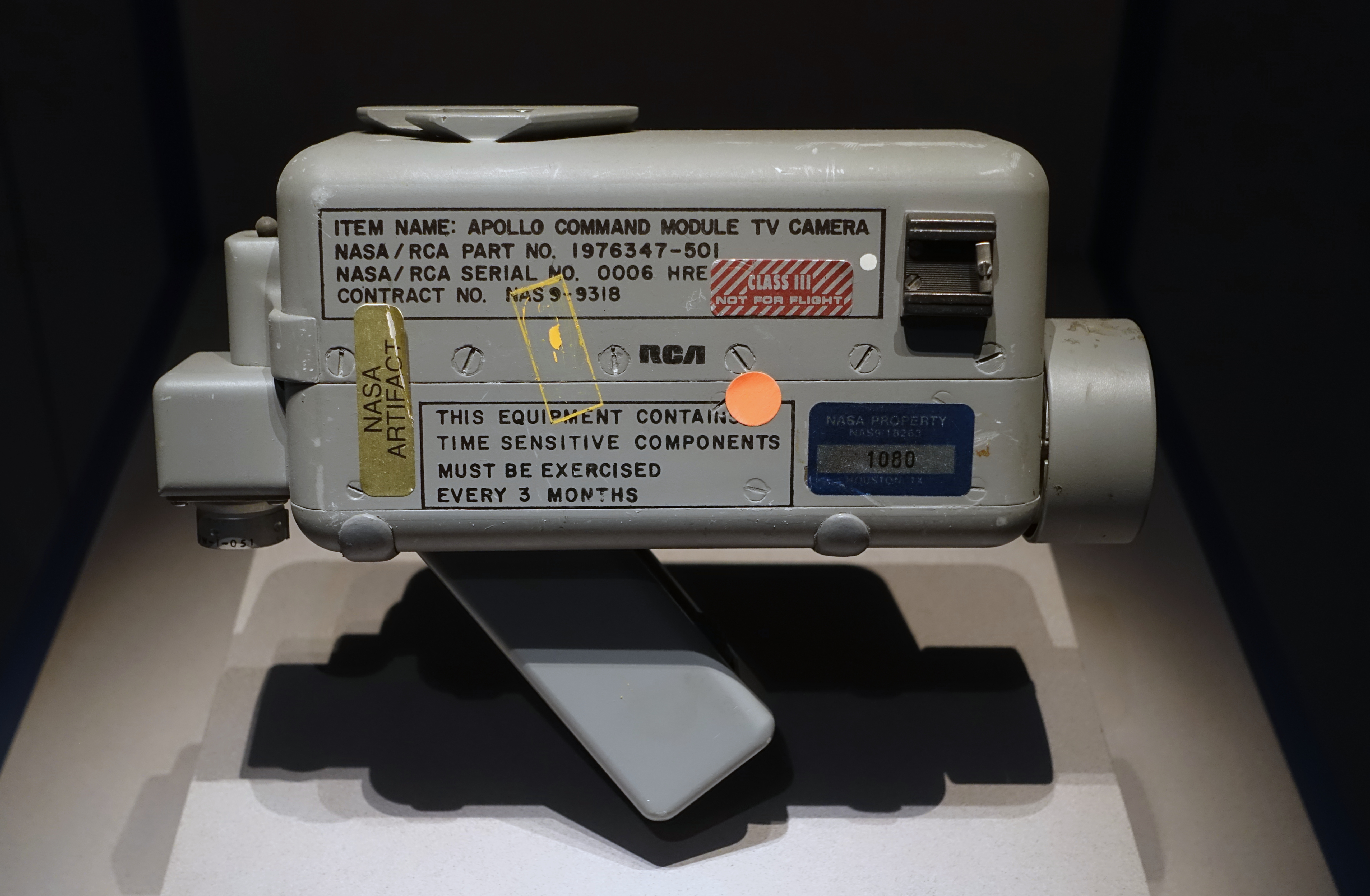 Exhibit at the Kennedy Space Center - Cape Canaveral, Florida, USA.